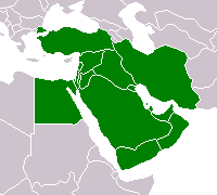 Cropped version of Map-World-Middle-East.png